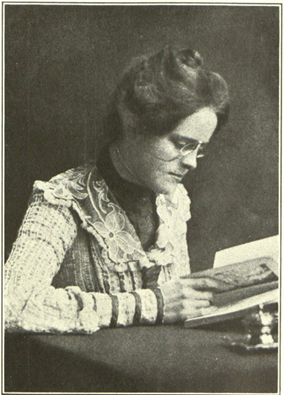 Photograph of Caroline Ransom (later Caroline Ransom Williams) seated at a desk, chin on her hand, reading a book.